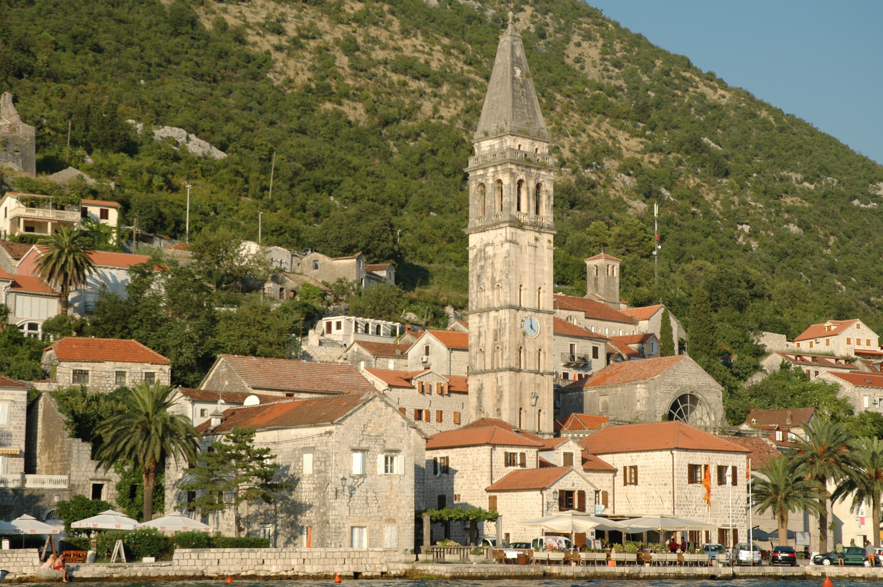 Panorama of Perasto (Boka Kotorska) with the flag of Venetian Republic along with the flags of Perast and Montenegro